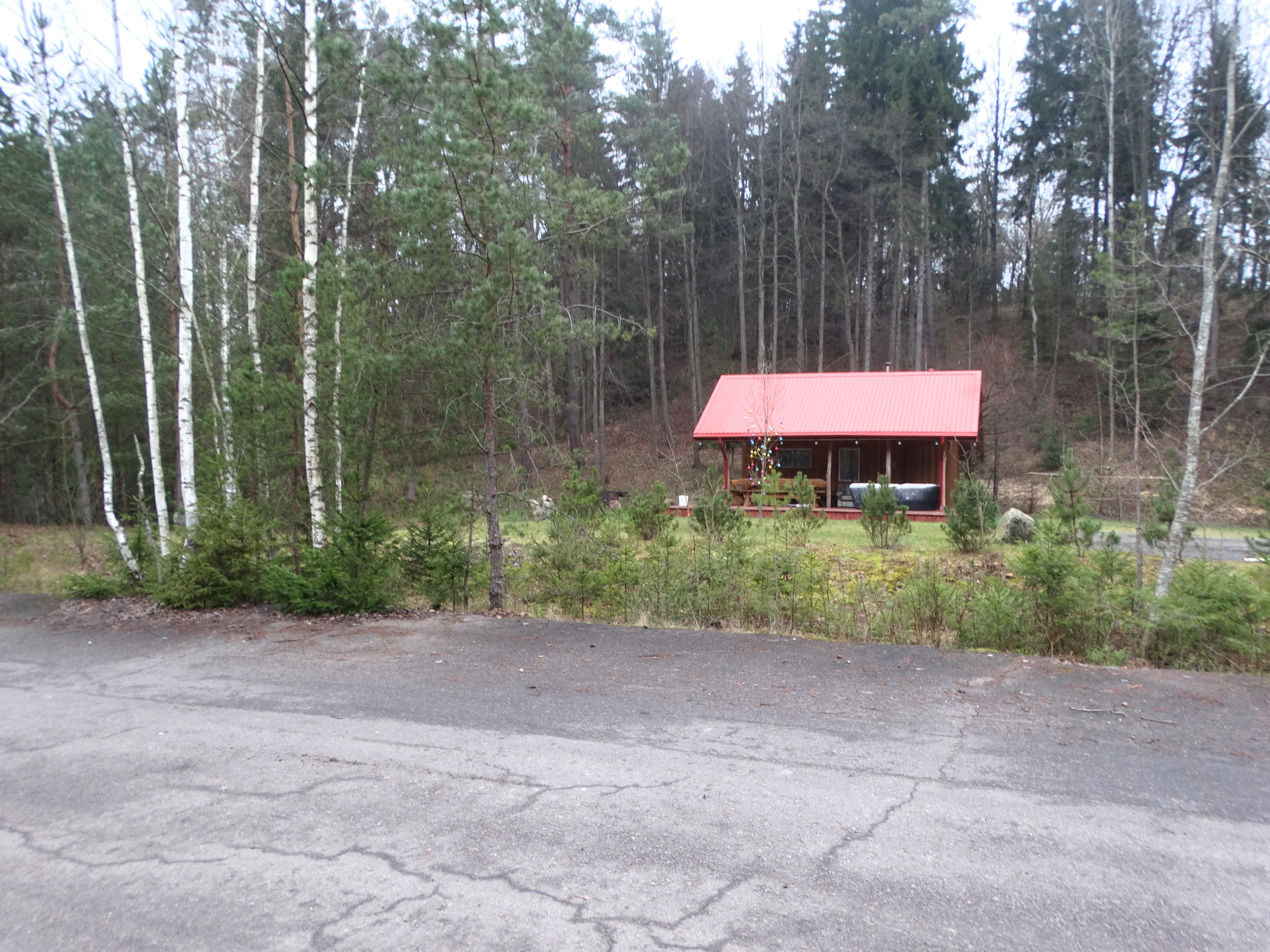 Virbališkiai hillfort, Kaunas district, Lithuania